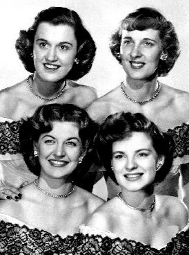 Photo of the vocal group The Chordettes.Clockwise from top: Carol Buschmann, Dorothy "Dottie" Schwartz, Jinny Osborn, and Janet Ertel.